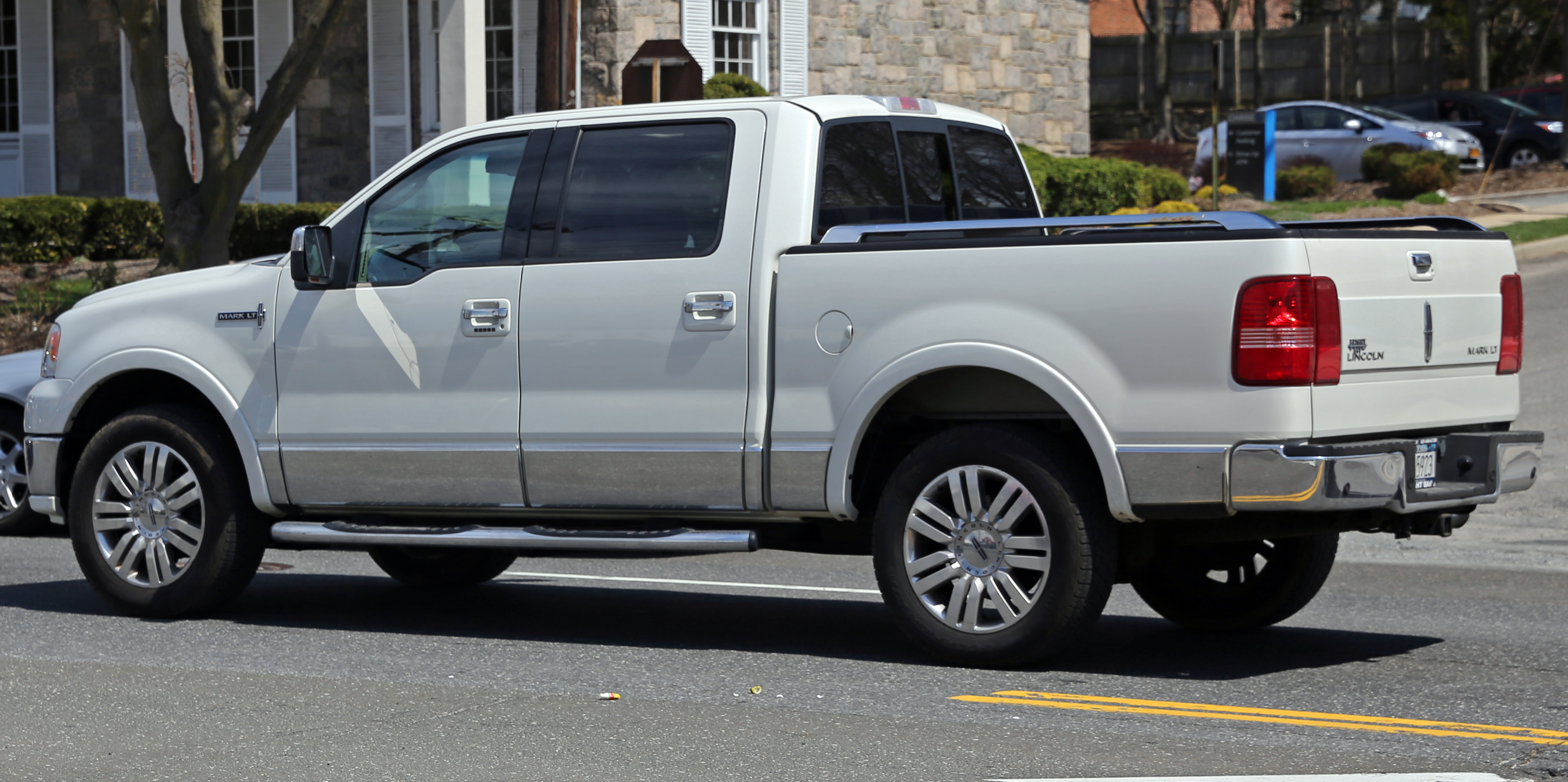 Rear left 3/4 view of a Lincoln Mark LT.